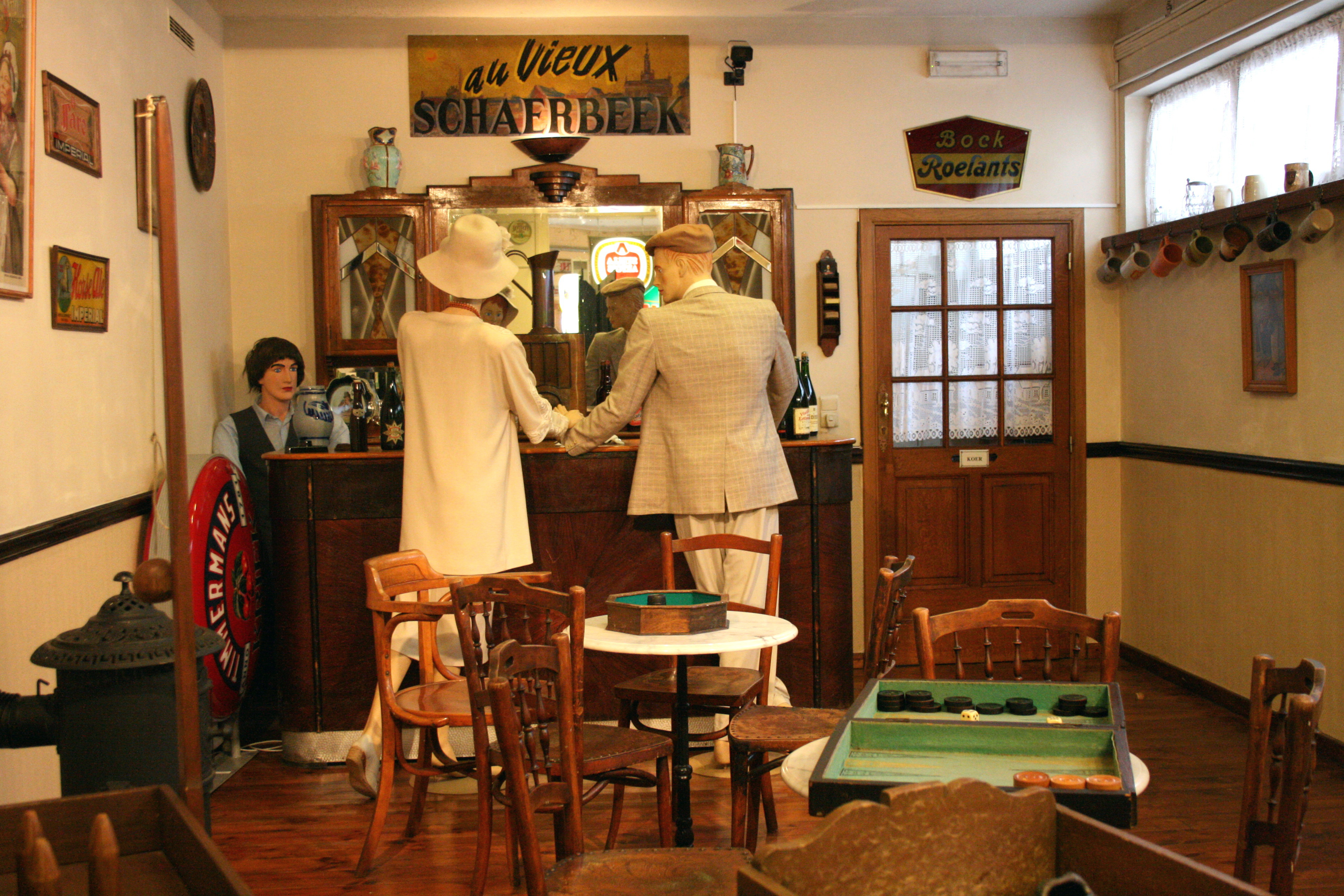 Schaerbeek Museum of Beer, avenue Louis Bertrand 33-35, Schaerbeek ( Brussels), Belgium